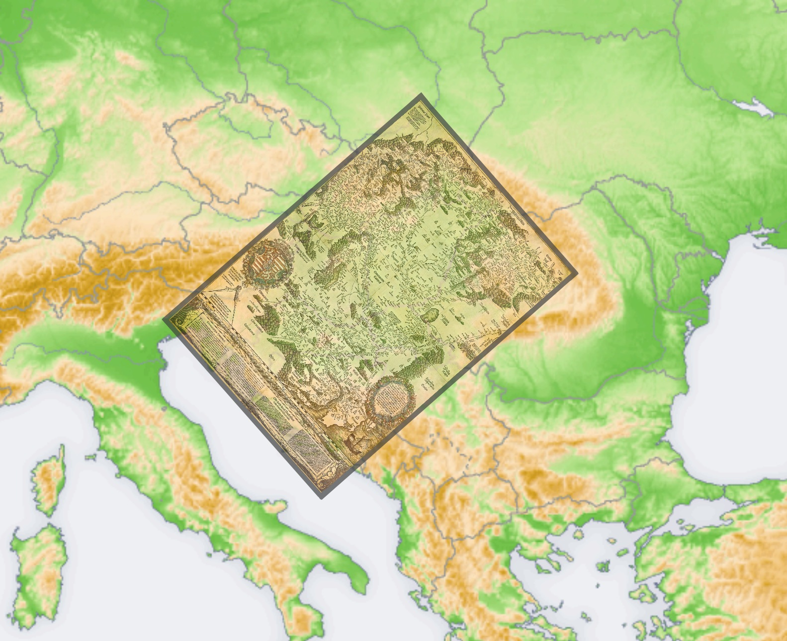 Tabula Hungariae, first printed map of Hungary oriented approximately to fit over the topographical map of Europe